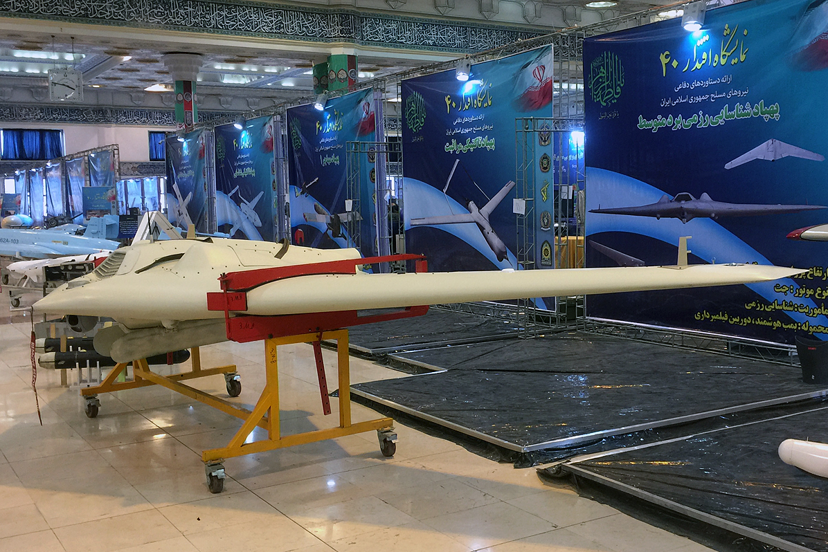 Side view of Saegheh-2 UAV during the Eqtedar 40 defence exhibition in Tehran.